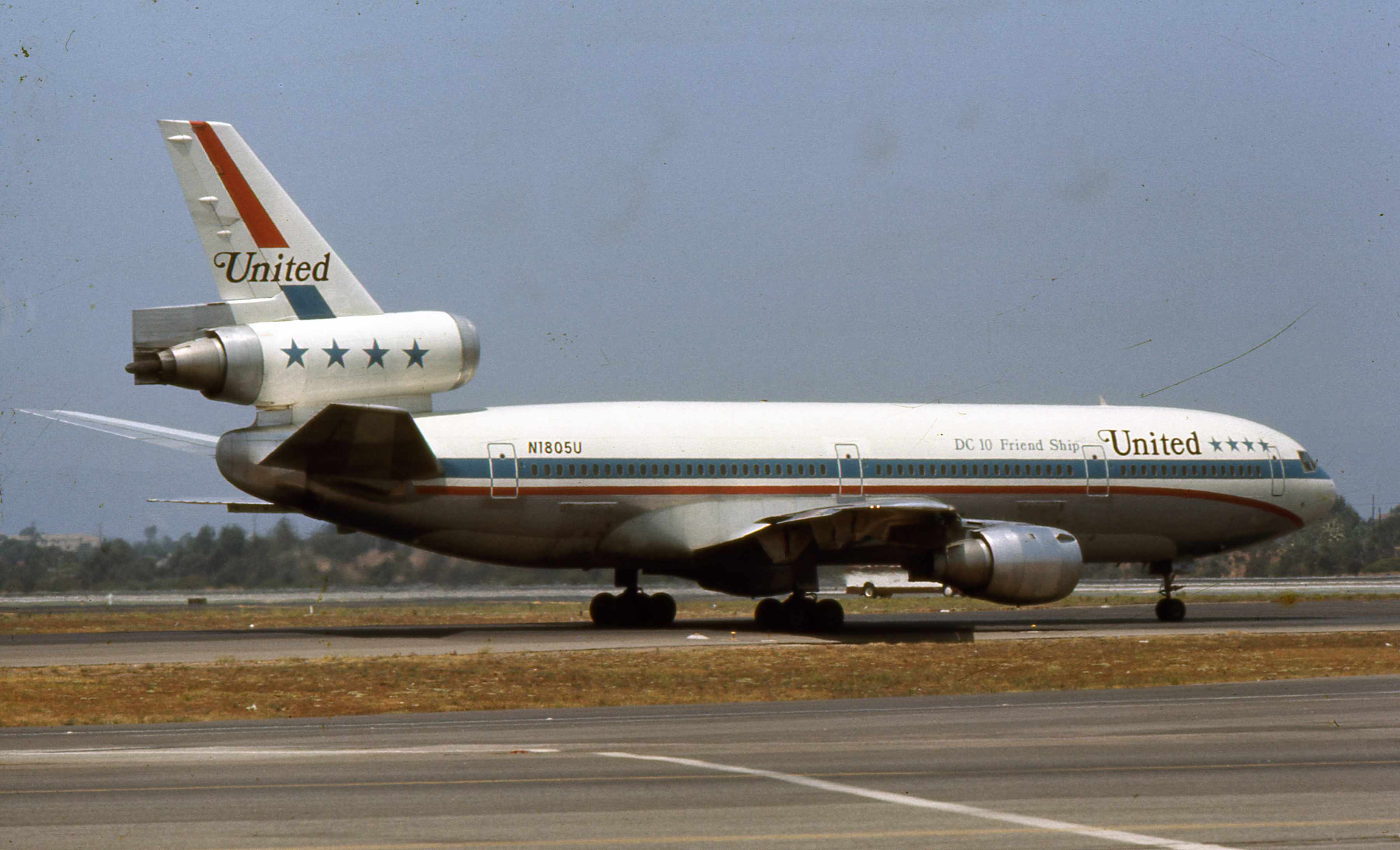 First flight on June 16, 1971, delivered to United Air Lines on October 29, 1971. Cancelled on May 3, 1994 and broken up.